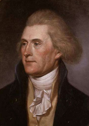 (cropped)